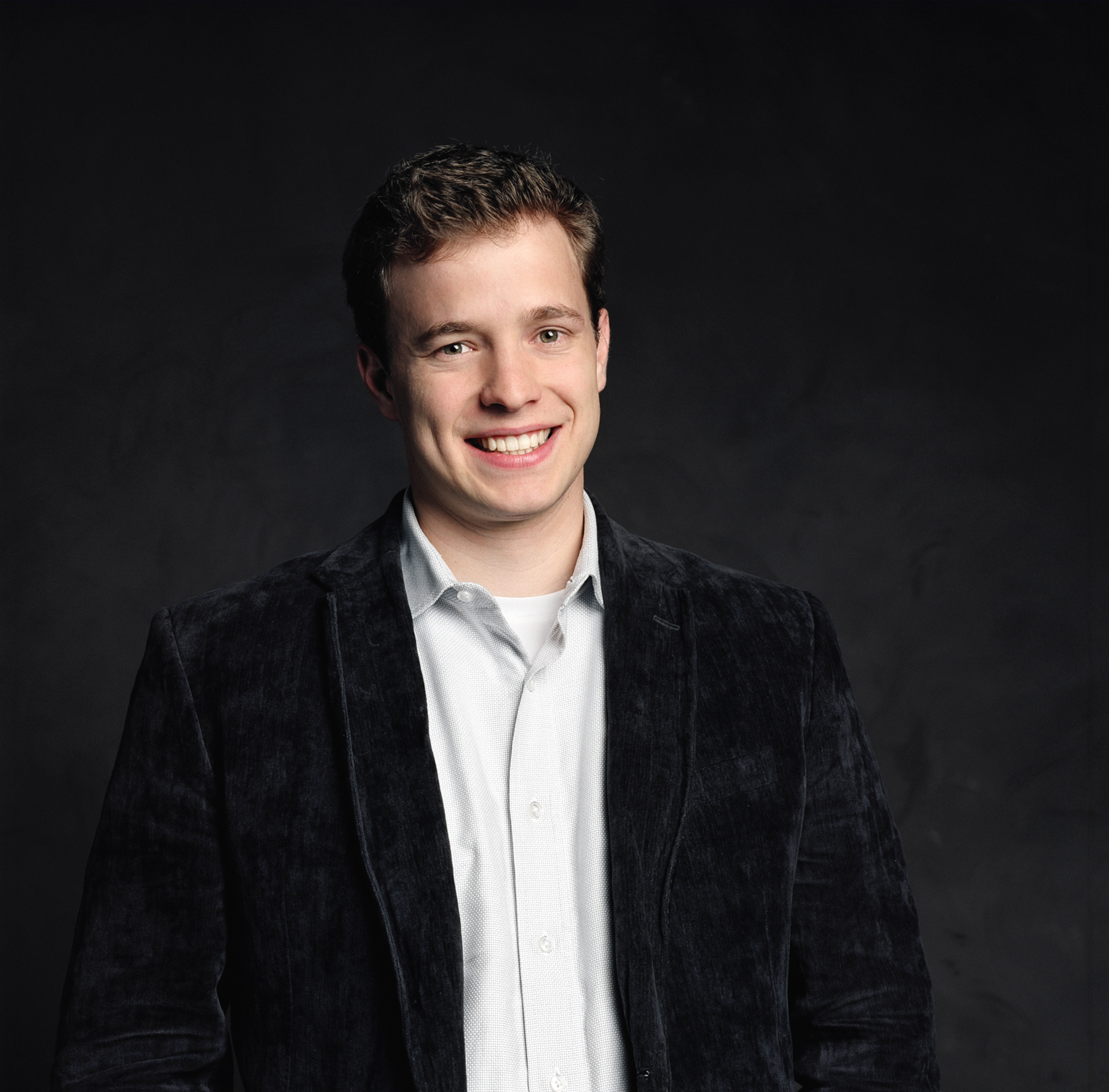 Marc Kielbuger, Chief Executive Director of Free The Children